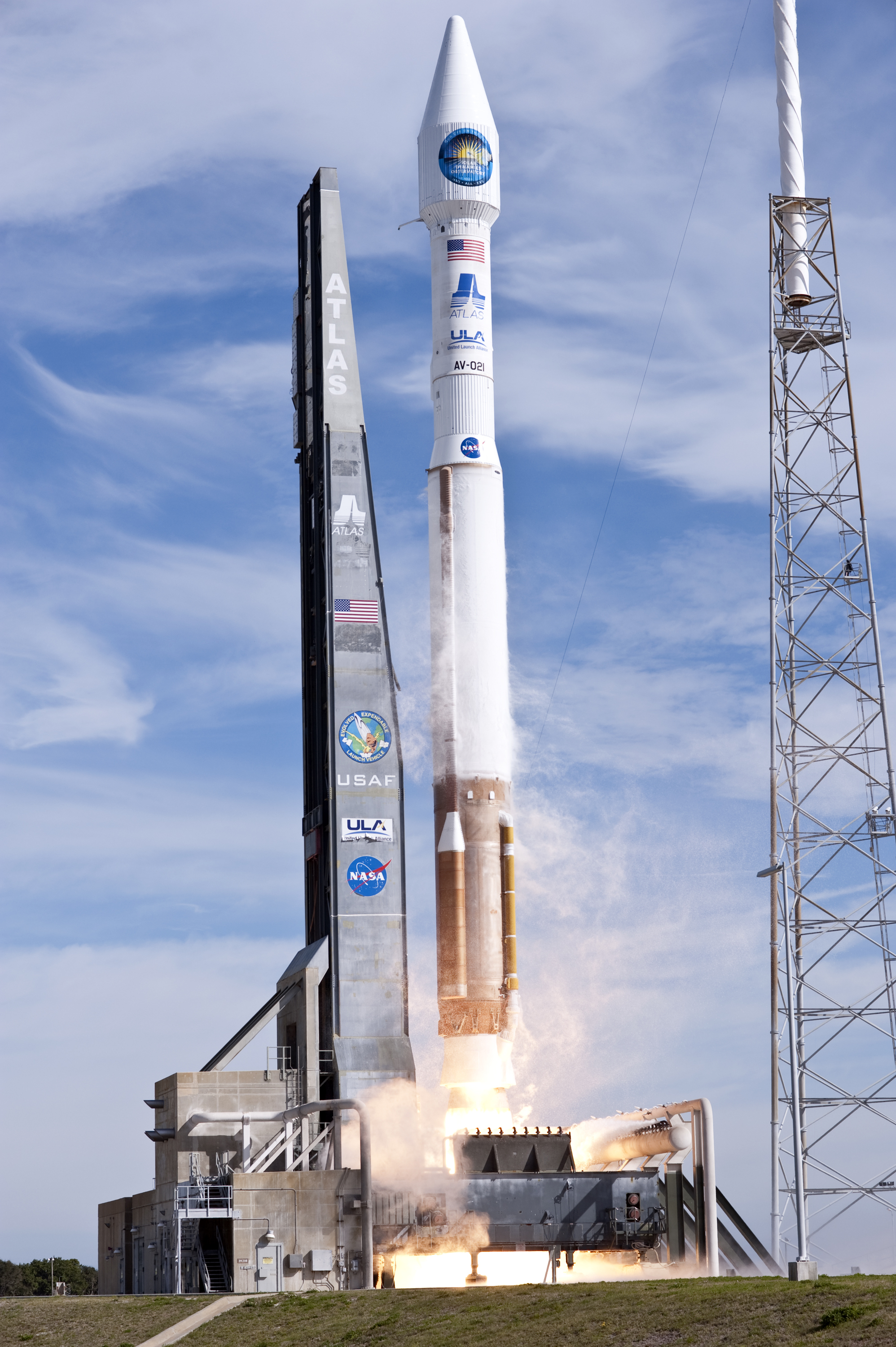 CAPE CANAVERAL, Fla. – Engine ignition lifts the United Launch Alliance Atlas V rocket carrying NASA's Solar Dynamics Observatory off Launch Complex 41 on Cape Canaveral Air Force Station. Liftoff was at 10:23 a.m. EST Feb. 11. This is the 100th launch of a commercial Atlas/Centaur rocket. The observatory, known as SDO, is the first mission in NASA's Living With a Star Program and is designed to study the causes of solar variability and its impacts on Earth. The spacecraft's long-term measurements will give solar scientists in-depth information to help characterize the interior of the Sun, the Sun's magnetic field, the hot plasma of the solar corona, and the density of radiation that creates the ionosphere of the planets. The information will be used to create better forecasts of space weather needed to protect the aircraft, satellites and astronauts living and working in space. For information on SDO, visit